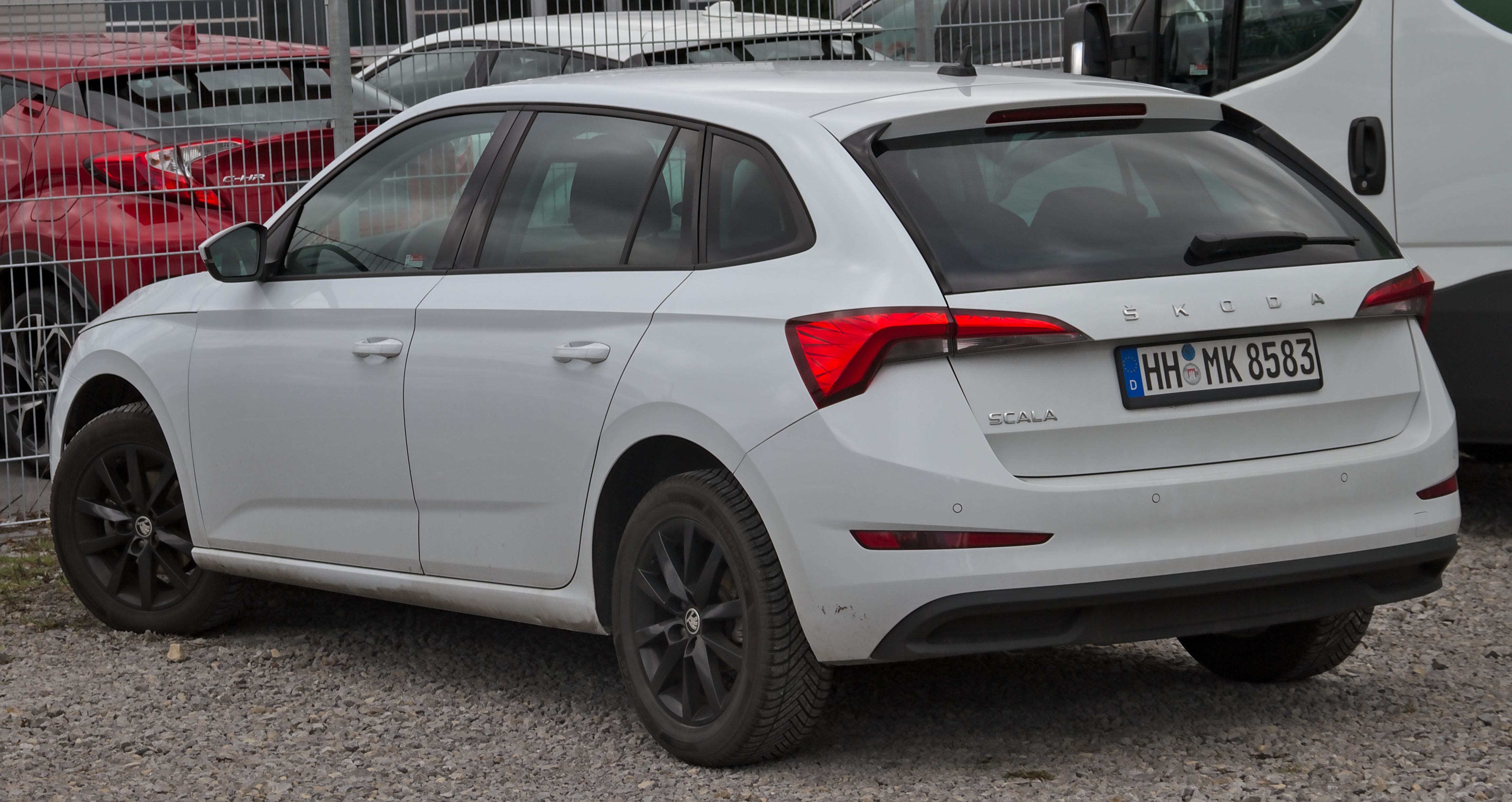 Skoda_Scala in Stuttgart-Vaihingen